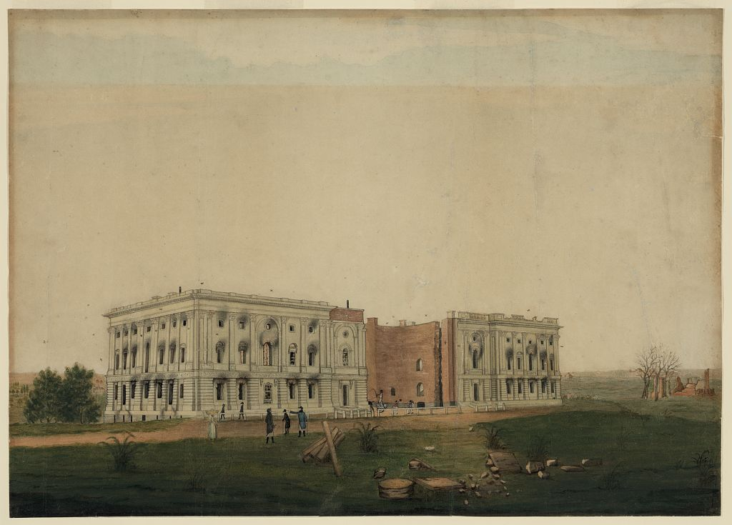 Watercolor by George Munger showing the ruins of the U.S. Capitol following British attempts to burn the building in 1814; includes fire damage to the Senate and House wings and the shell of the rotunda with the facade and roof missing.